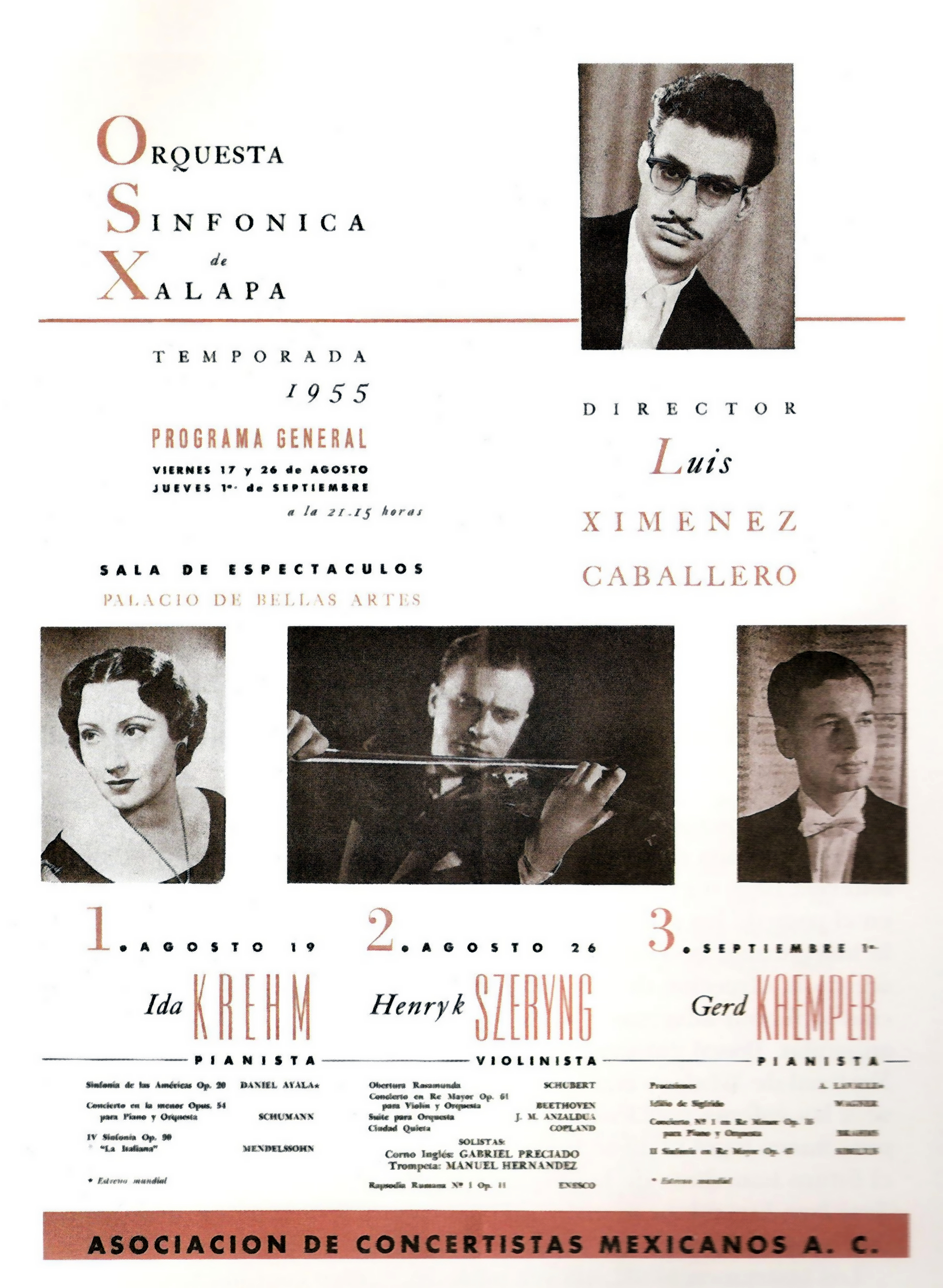 Programs presented by the Xalapa Symphony Orchestra under the conduction of Luis Ximénez Caballero at the Palace of Fine Arts in Mexico City (1955) with soloists: Ida Krehm (Piano. Canada), Henryk Szeryng (violin. Poland) and Gerd Kaemper (Piano. Germany). The programs included the world premieres of the "Symphony of the Americas" (Op. 20) by Daniel Ayala Perez and of the piece "Processions" by Armando Lavalle